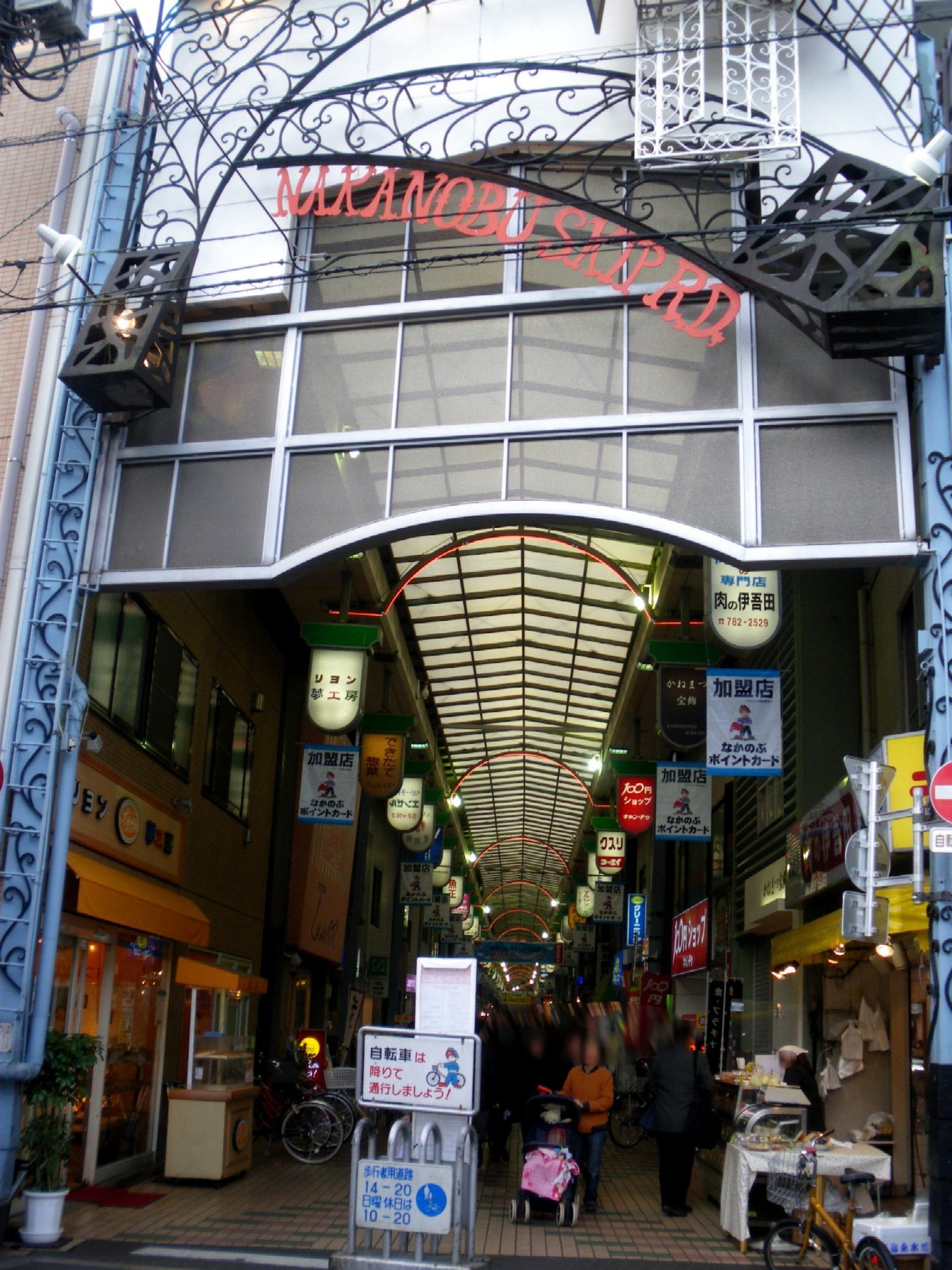 A photo of Nakanobu Skip Road shopping street,Shinagawa-ku,Tokyo,Japan.